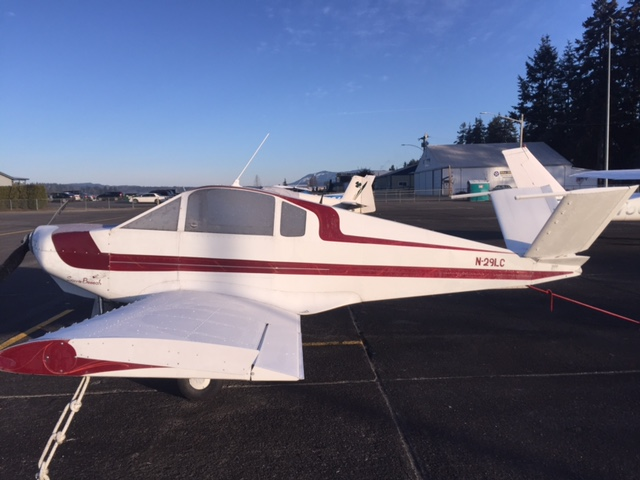 1979 Davis DA-2B 4 cyl O200 Continental. 502 Hours Since Top Overhaul. TT 660. Serial # 262 N29LC. Manufactured by Larry Graves. 2/14/79. No alternator. No avionics. Battery to engine starter only. Stick and rudder. Ext: Waneke laminated wood. White with red stripe. Detail graphic “Son A Beech”. Interior: Red Prop: 2 piece fixed pitch w/optional 3rd blade. Needs new spinner and backplate. Radio needs repair. Seats 2. Interior year: 1979. Year painted: 1979 Can be seen at Arlington, WA airport. A joy to fly! Very responsive.